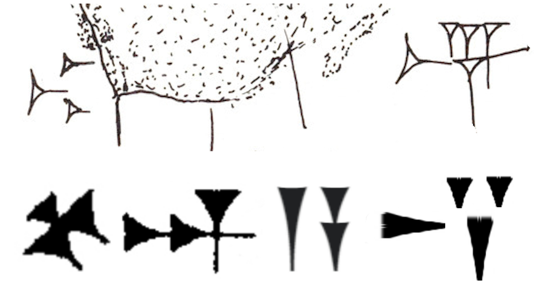 KUR A-SHUR for Assyria in Armana letter EA15